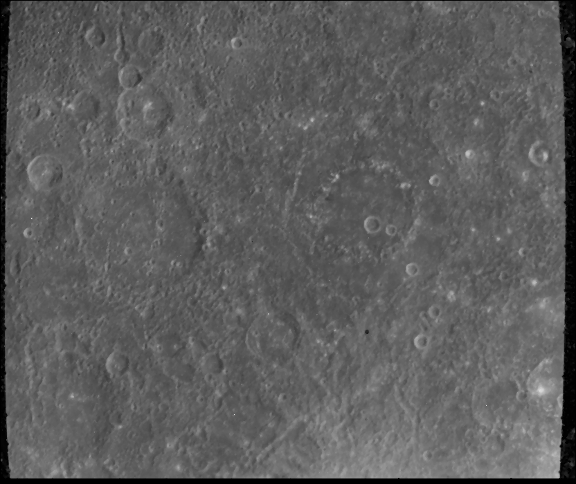 Image Number: 0166822GMT: 1974:264:21:52:34Start Time: 1974-09-21T21:52:34.404ZLatitude: -19.24° to -5.22°Longitude: 132° to 146.86°Resolution (meters per pixel): 519Incidence Angle: 41.23°Emission Angle: 9.84°Phase Angle: 40.28°Ts'ao Chan crater at left, Mark Twain crater at right.